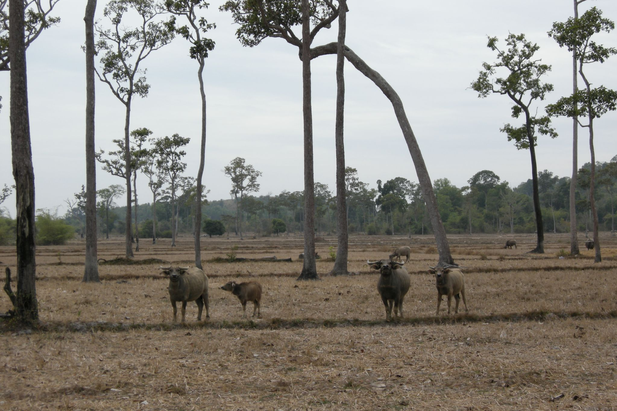 Cat Tien National Park, Vietnam.